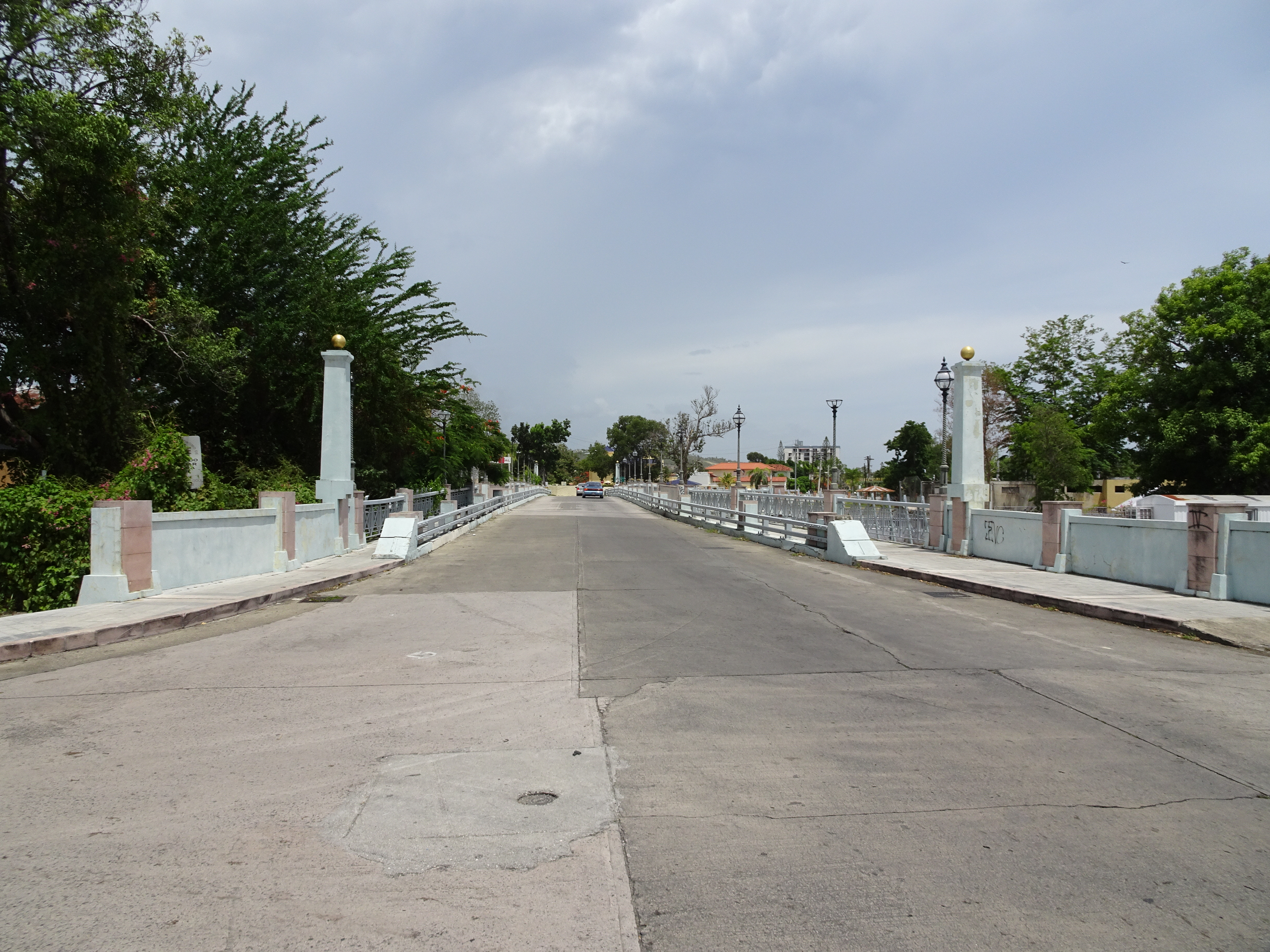 Puente La Milagrosa, C. Guadalupe (PR-14R), Bo. Quinto, Ponce, PR, mirando al este (DSC01854)